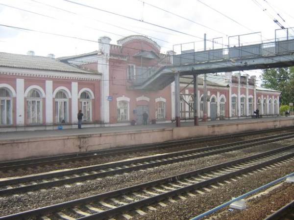 Railway station in Vyshniy Volochuok, Tver oblast, Russia